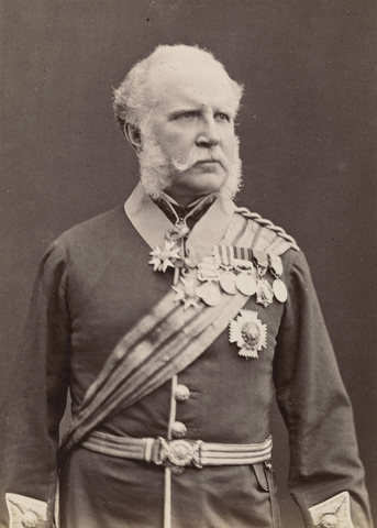 Sir John Miller Crown Copyright expired.